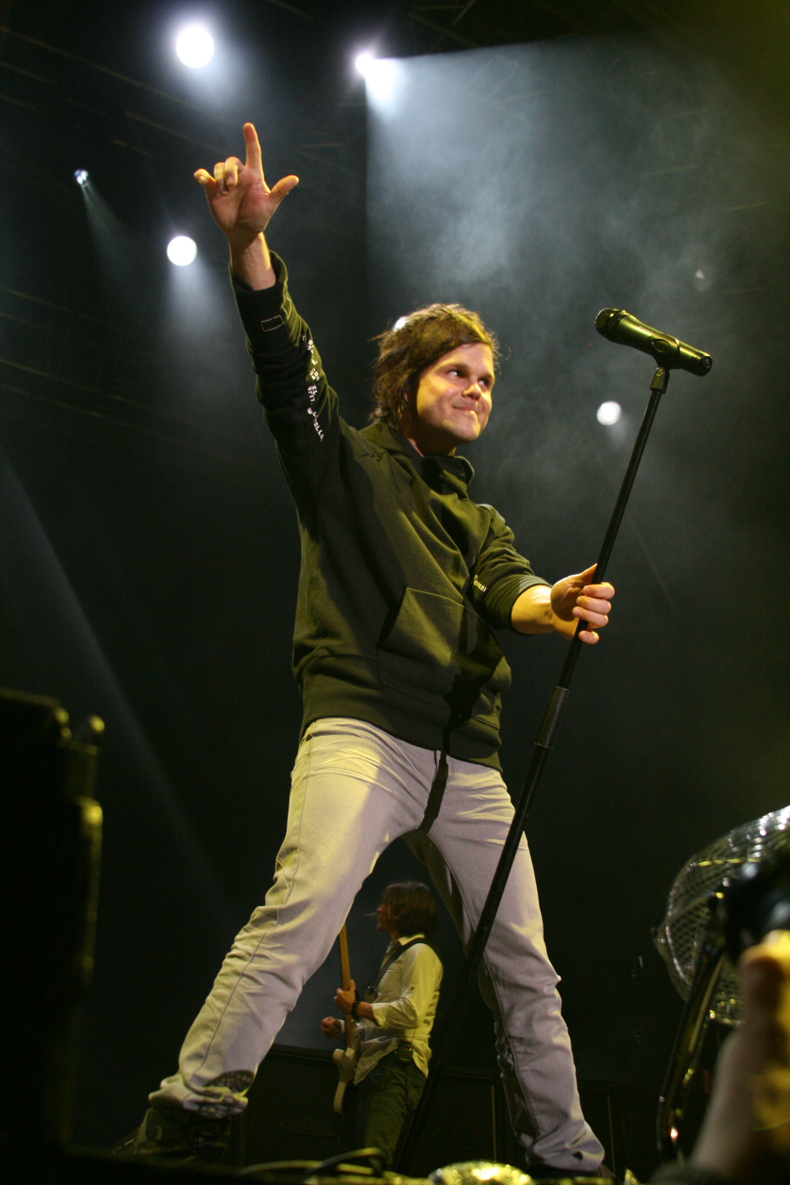 Lauri Ylönen performing in Lublin, Poland, 6th of May 2010